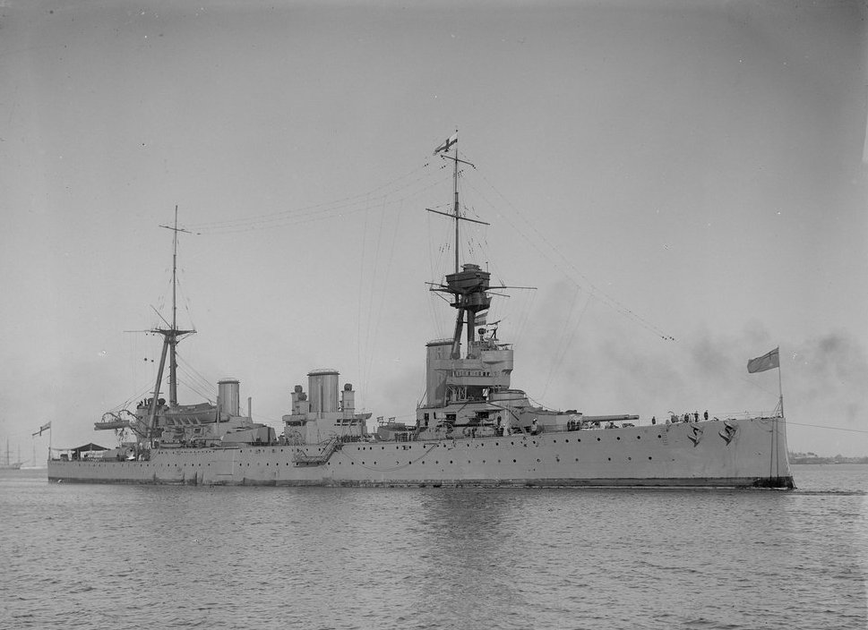 Australian battlecruiser HMAS Australia in 1914